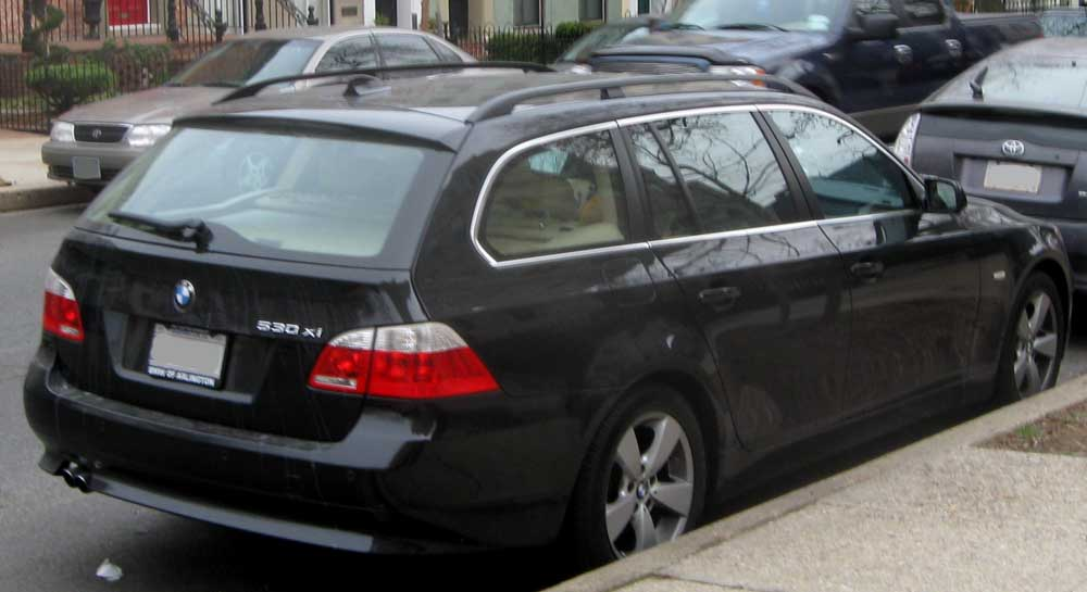 BMW 530xi photographed in Washington, D.C., USA.